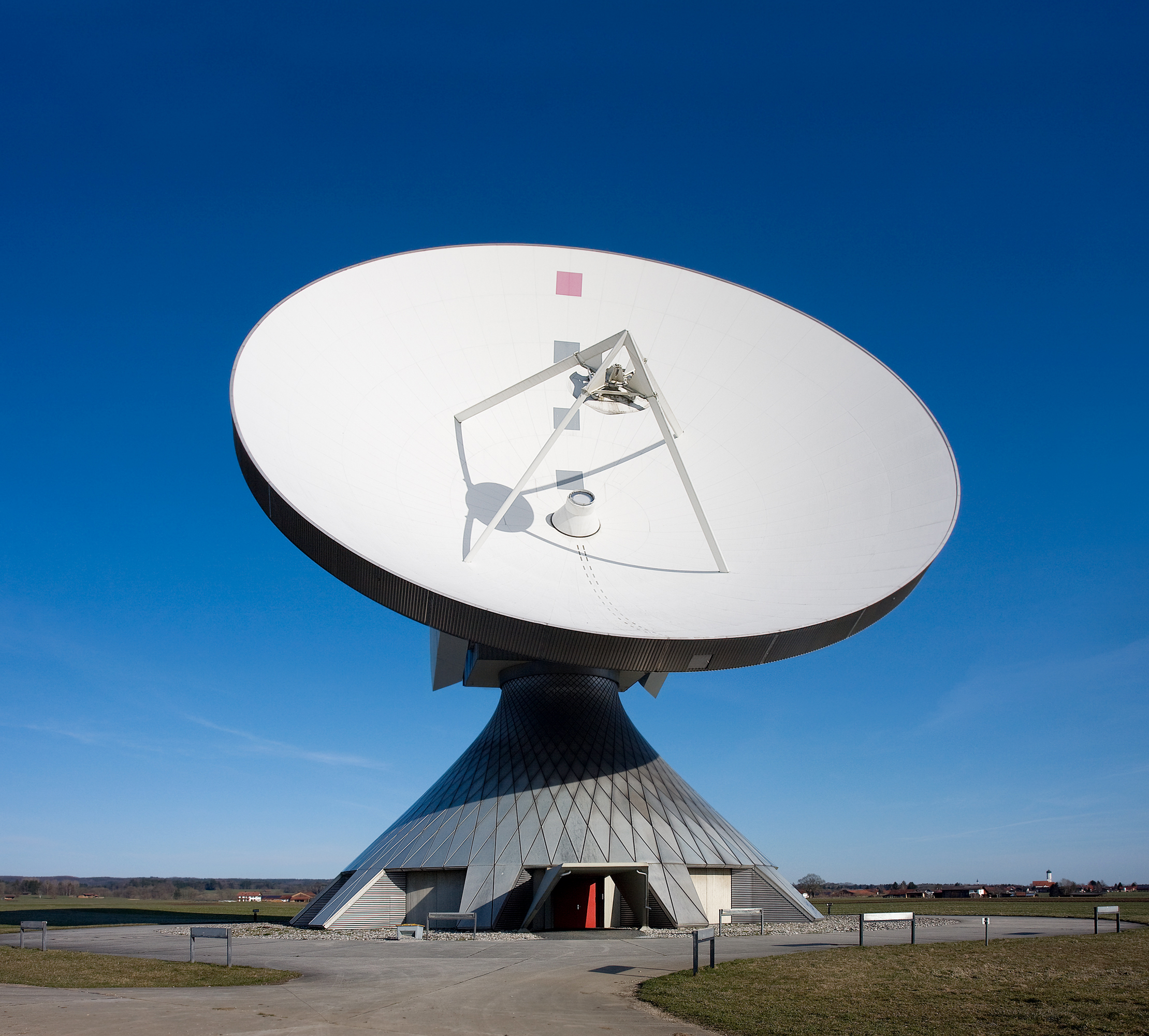 The biggest facility for satellite communication in Raisting, Bavaria, Germany.